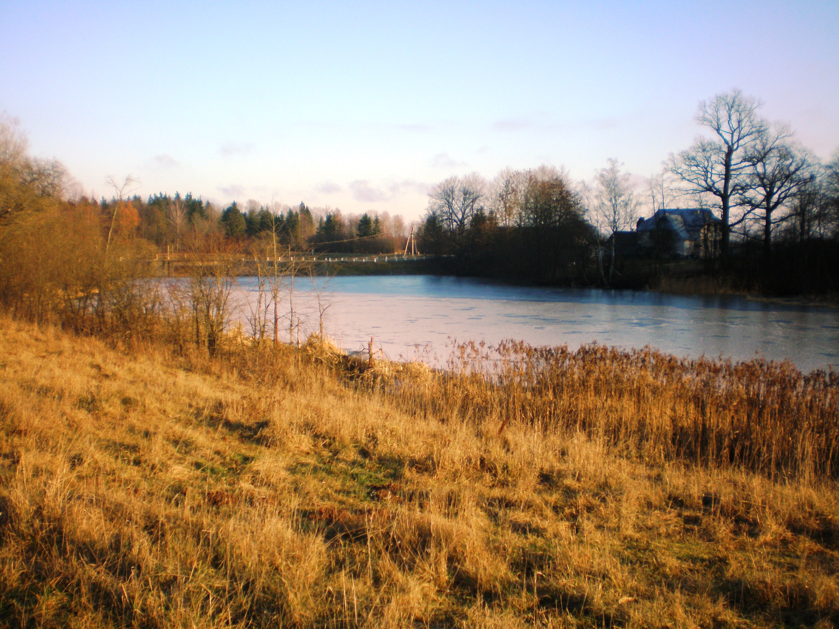 Keleriškiai Pound, Kėdainiai district, Lithuania